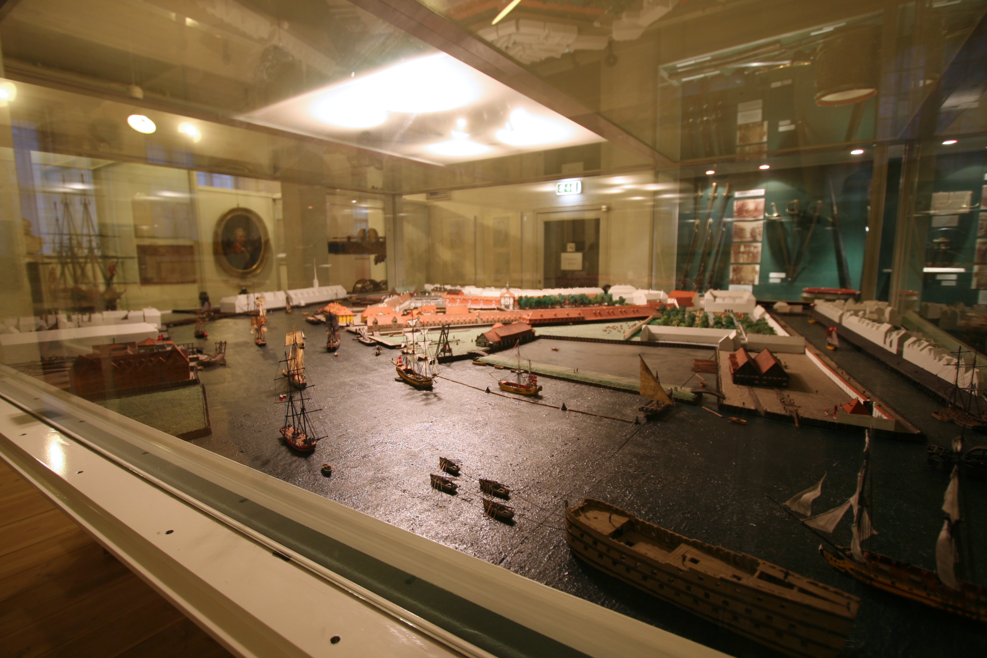 Orlogsmuseet, The Royal Danish Naval Museum in Copenhagen. Model of Holmen in the 1700's. Model af Holmen på 1700-tallet.